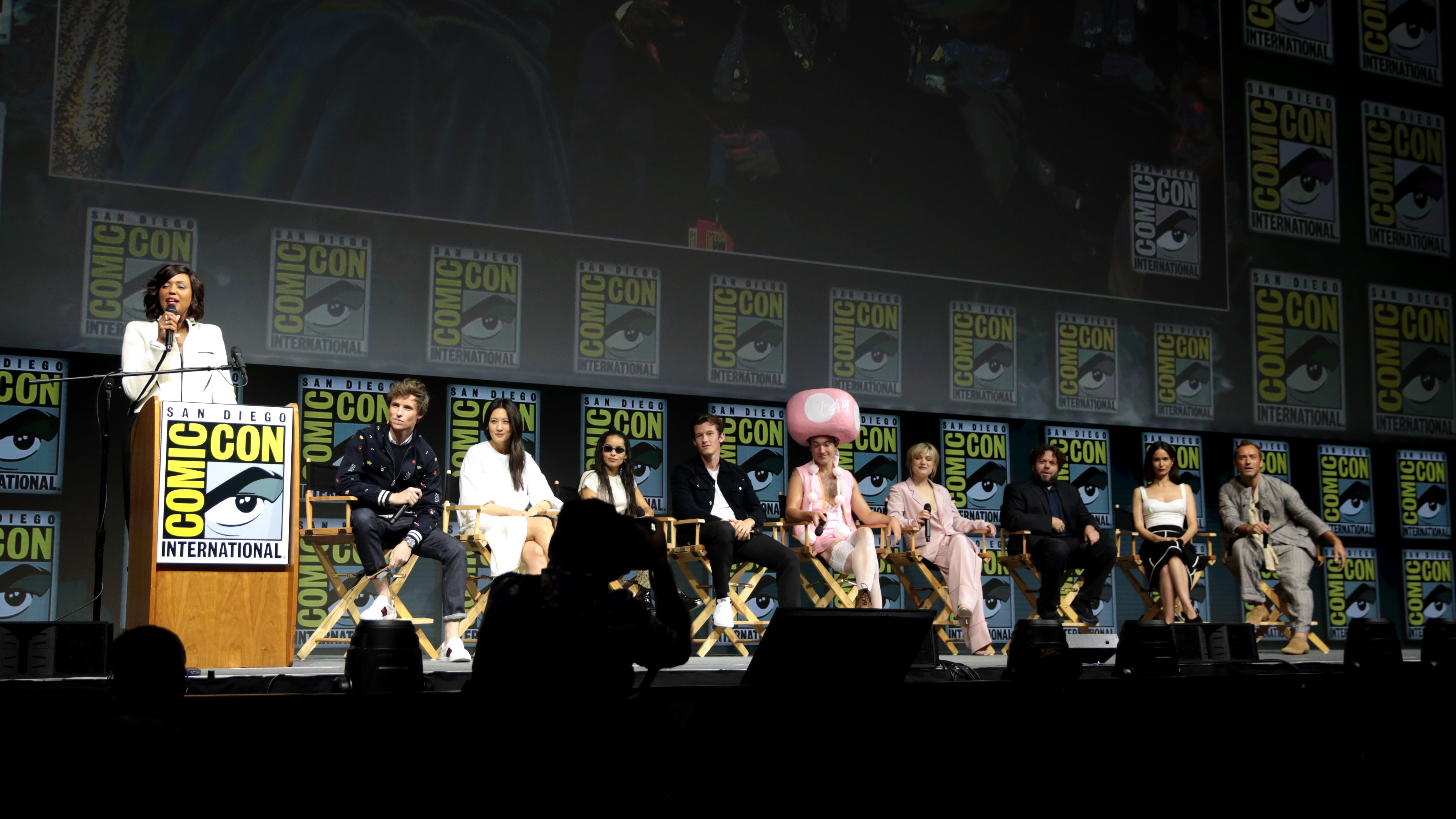 Aisha Tyler, Eddie Redmayne, Claudia Kim, Zoë Kravitz, Callum Turner, Ezra Miller, Alison Sudol, Dan Fogler, Katherine Waterston and Jude Law speaking at the 2018 San Diego Comic Con International, for "Fantastic Beasts: The Crimes of Grindelwald", at the San Diego Convention Center in San Diego, California.